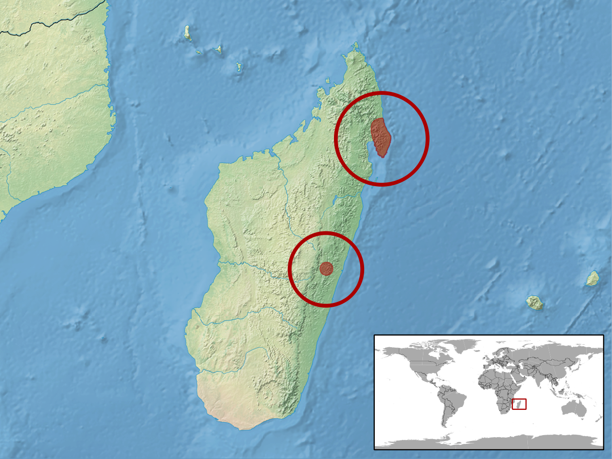 geographic distribution of Paracontias holomelas